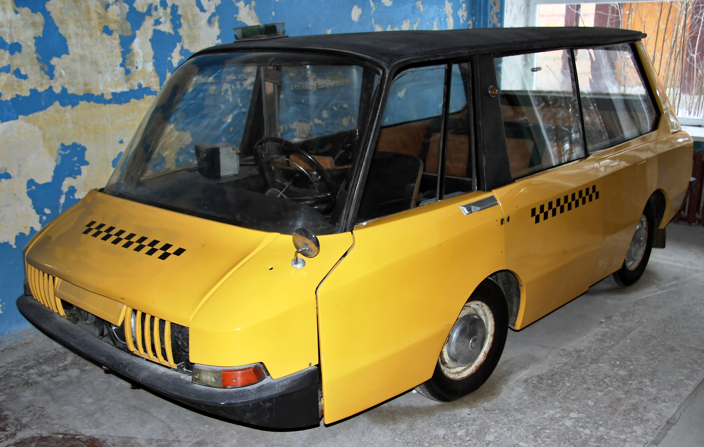 VNIITE-PT taxi prototype on display in a newly opened military technical museum in Noginsk district, Russia.